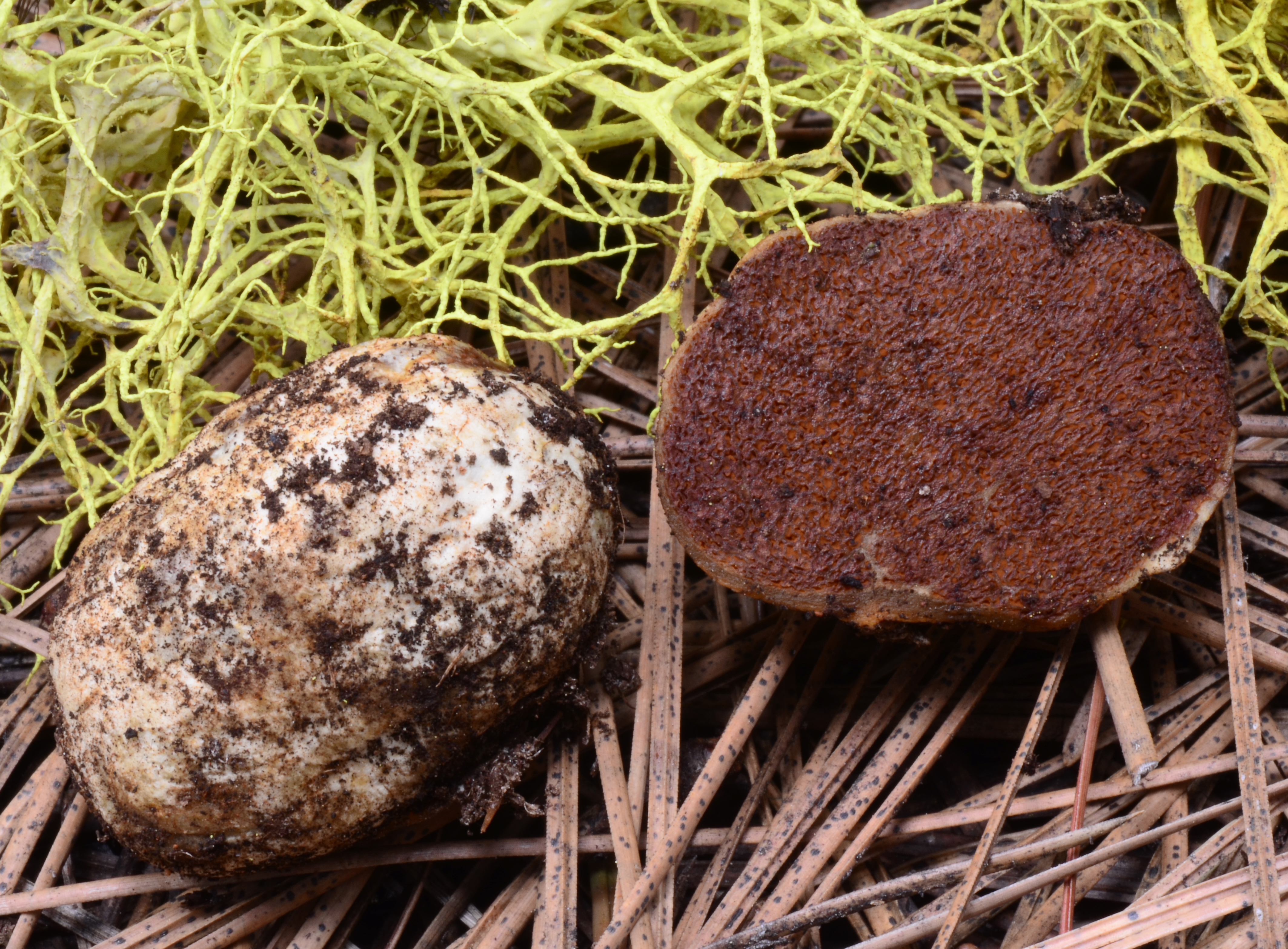 Bisected fruit body of Hymenogaster sublilacinus A.H.Sm., photographed in McCloud, California, USA.